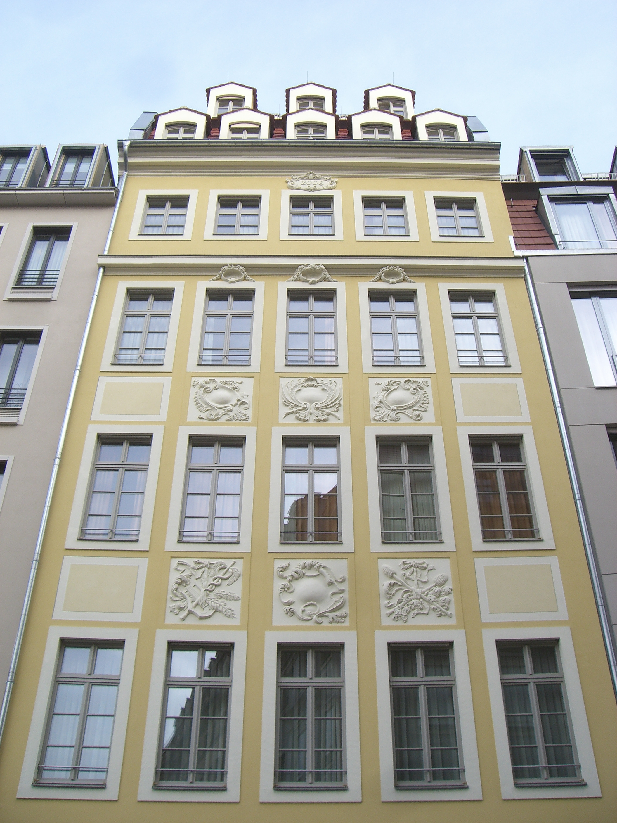 Facade of the house Neumarkt 7 in Dresden (reconstruction of 2007/2008; the original building was destroyed in 1945), view without ground floor